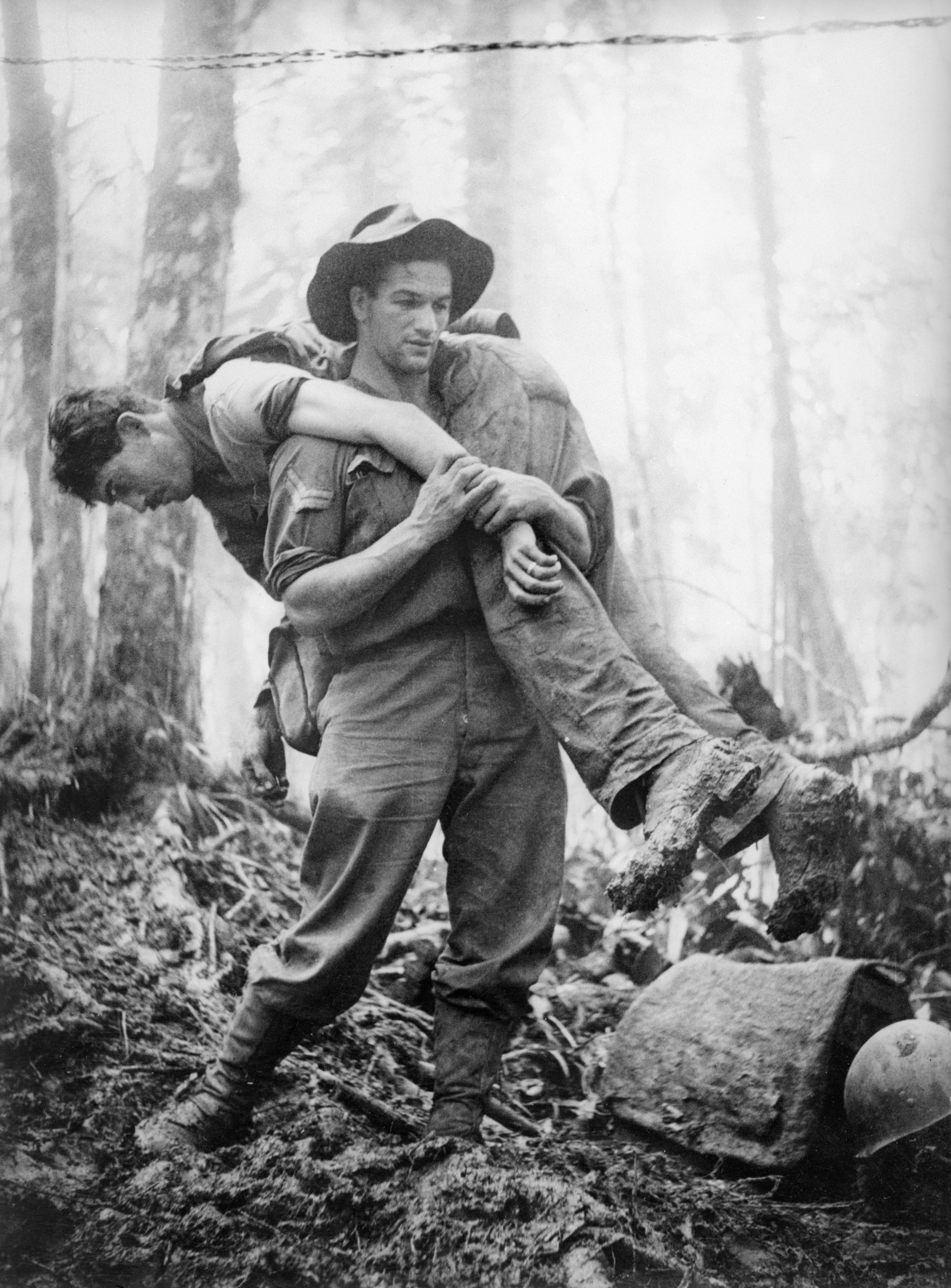 Australian stretcher bearer, Corporal Leslie Allen of the 2/5th Infantry Battalion, rescues an American soldier during fighting against the Japanese on Mount Tambu, during World War II